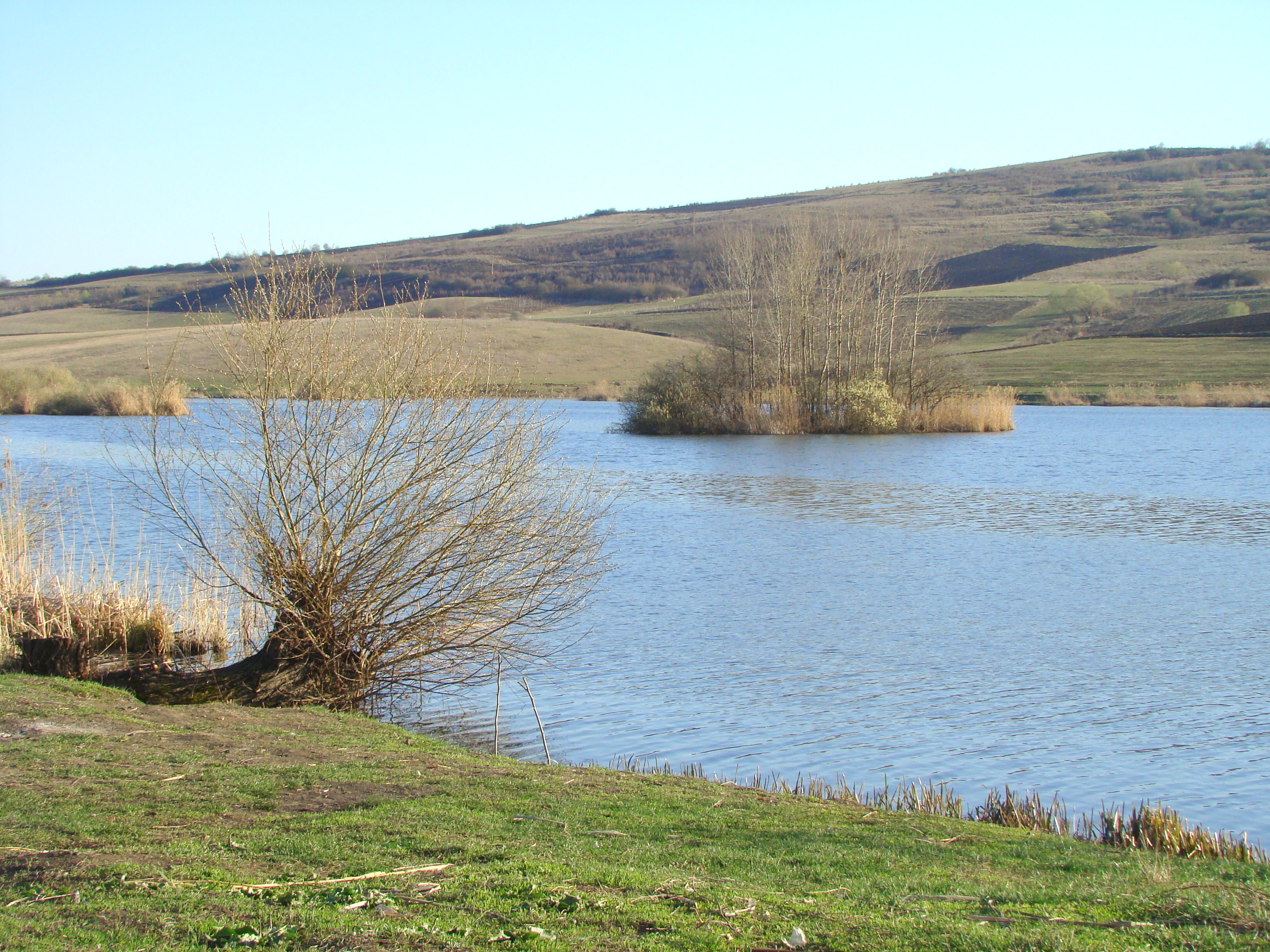 Lake Fărăgău, Mureş county, Romania